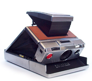 Author: John Kahrs